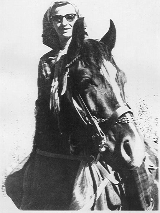 Mary Leila Gharagozlou on her black Obayan Sharak stallion-Arras